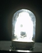 Cropped still frame from an animation of a Xenon flash lamp being fired, licensed under the GFDL by the photographer, Gregory Maxwell.